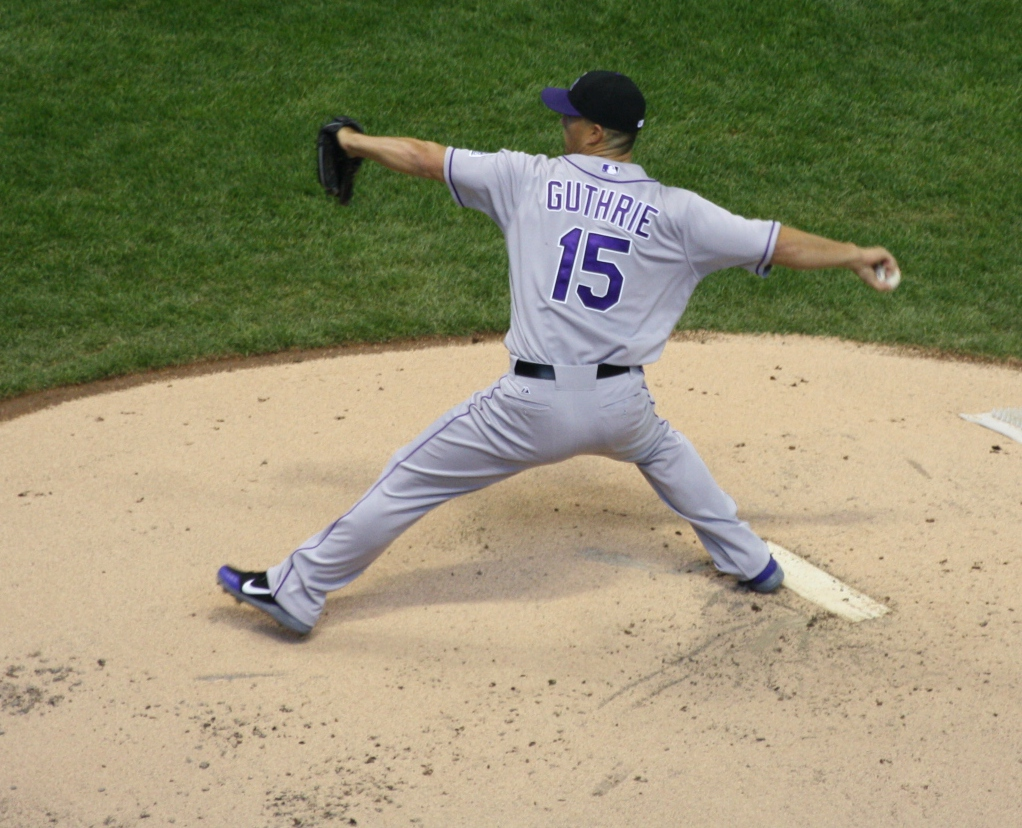 Colorado Rockies player Jeremy Guthrie.